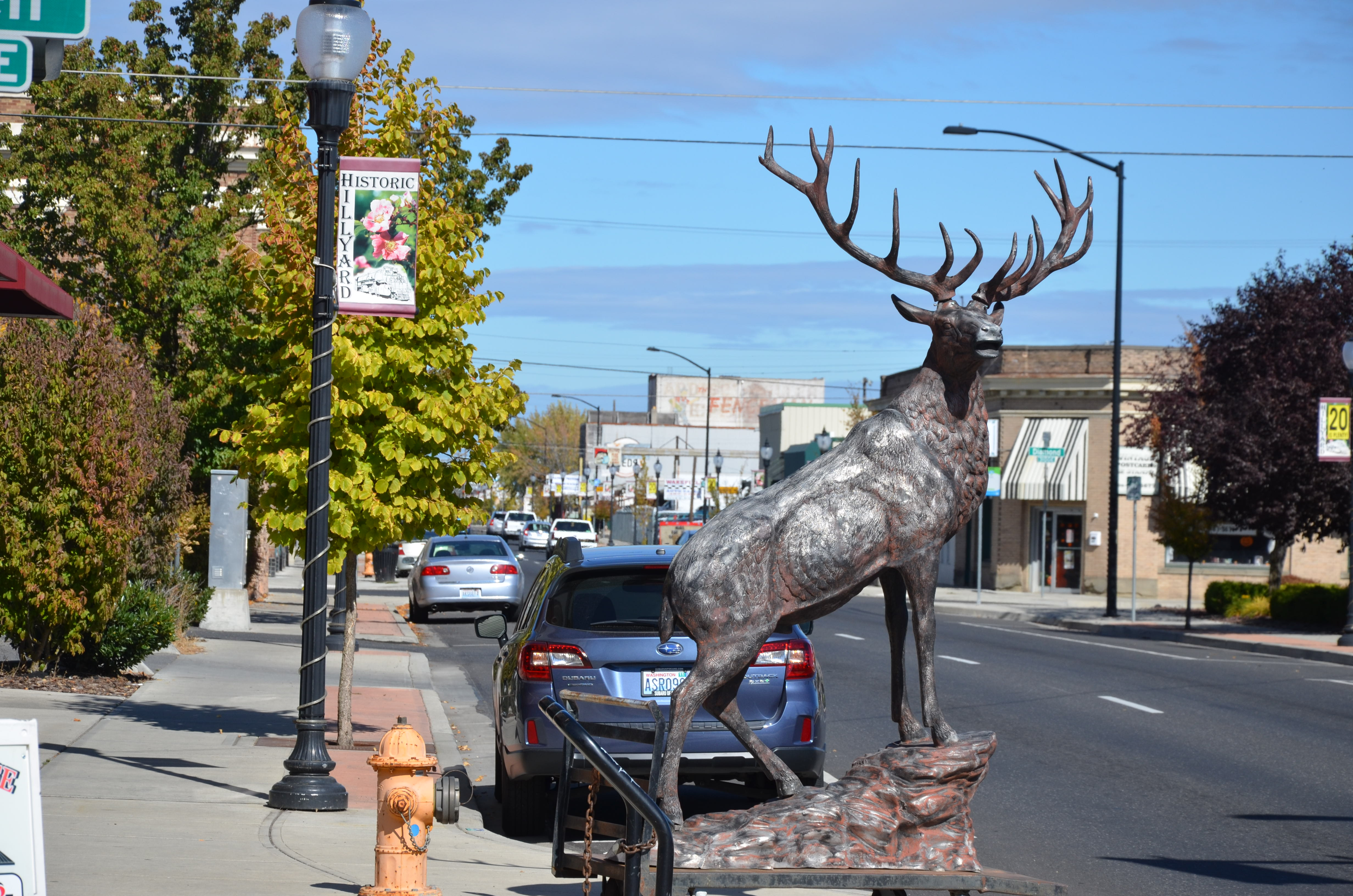 Part of the Hillyard Historic Business District, listed on the National Register of Historic Places.